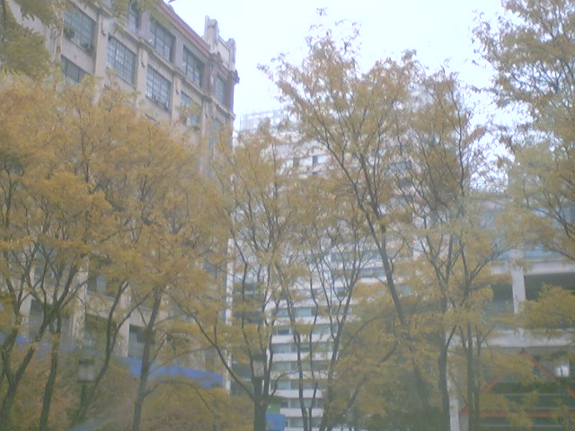 The ROgers Hall (Main buildings) REsidence Hall, and the Dibner Library of the Polytechnic University, Brooklyn NYC